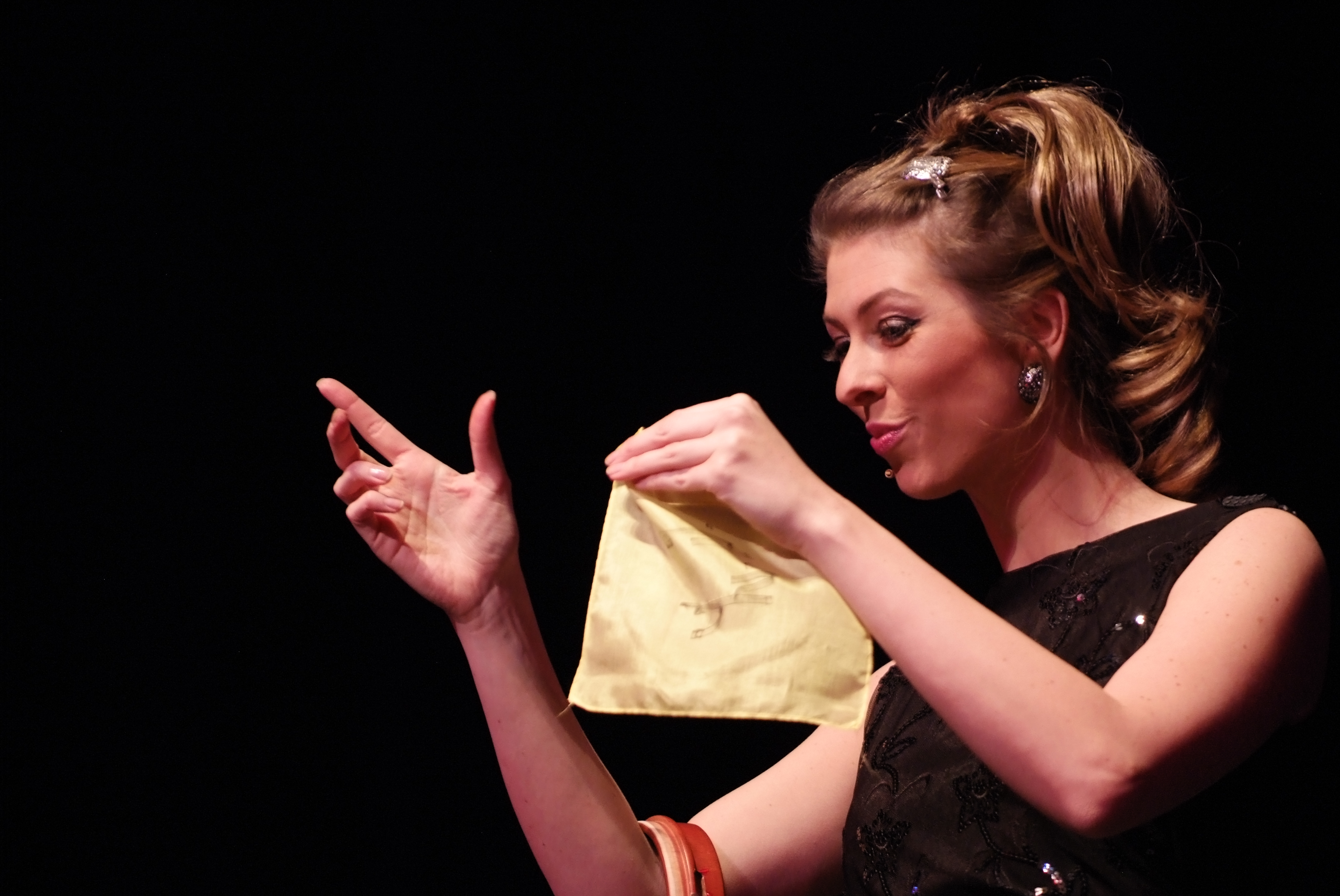 Alana, magician